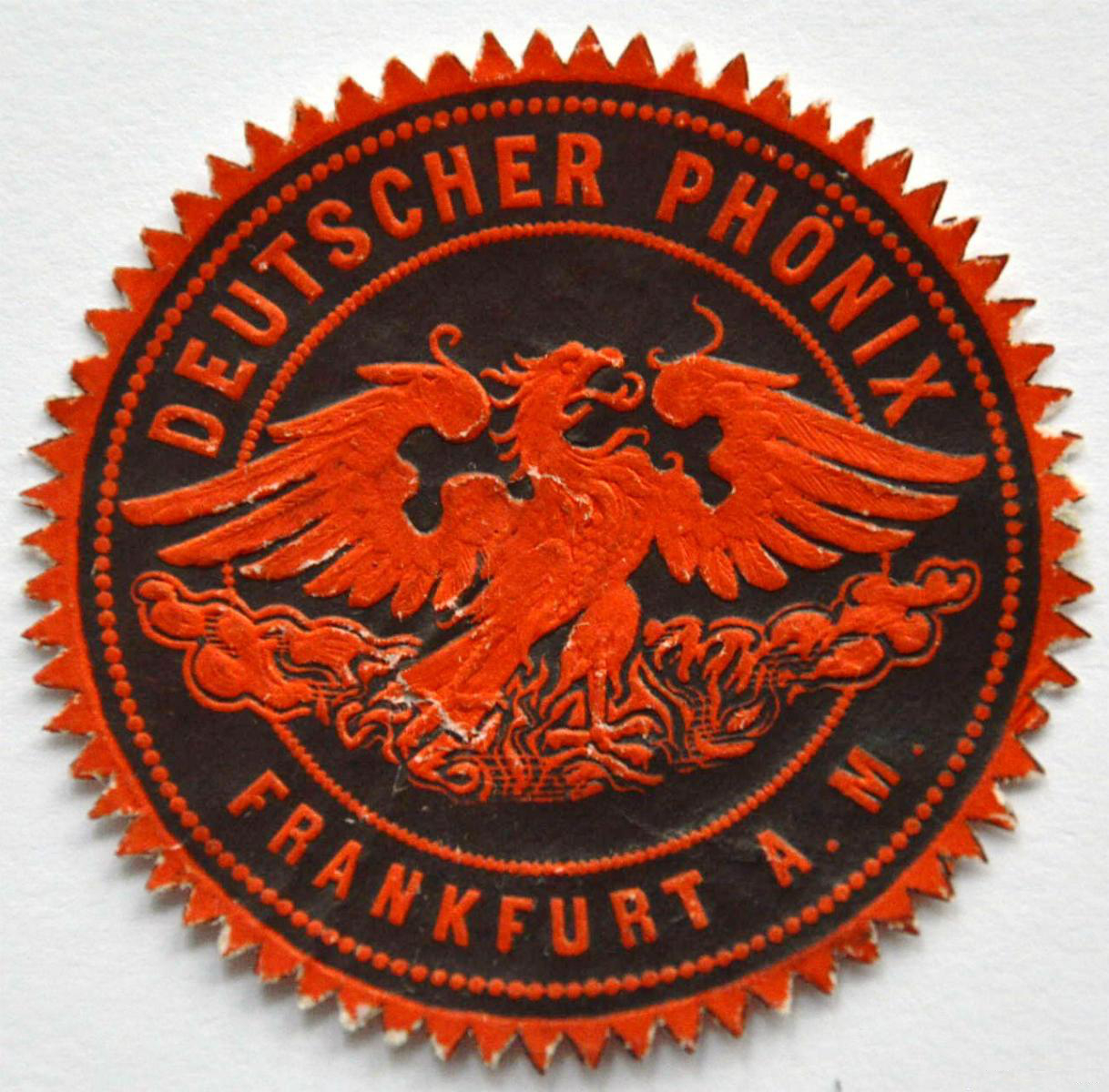 Sealing stamp of Feuerversicherungsgesellschaft Deutscher Phönix